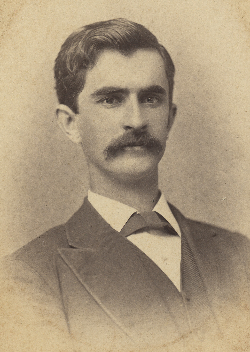 Portrait marked as A.C. Dixon, Taken in Asheville, N.C.